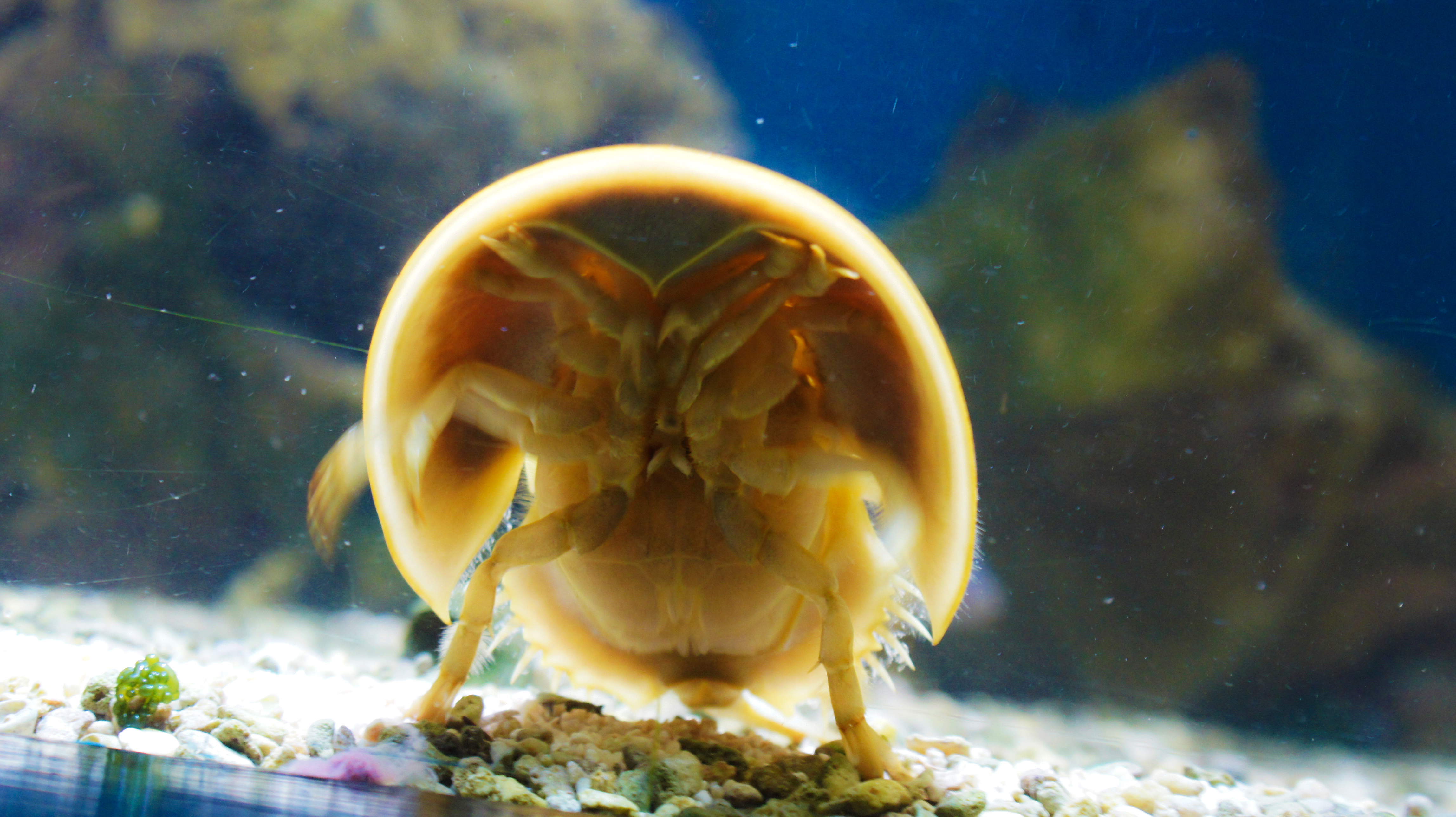 Atlantic horseshoe crab in aquarium